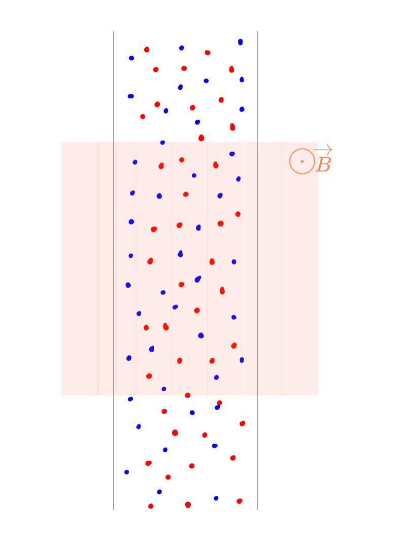 Electromagnetic flowmeter microscopical funcionament principle (without flow)